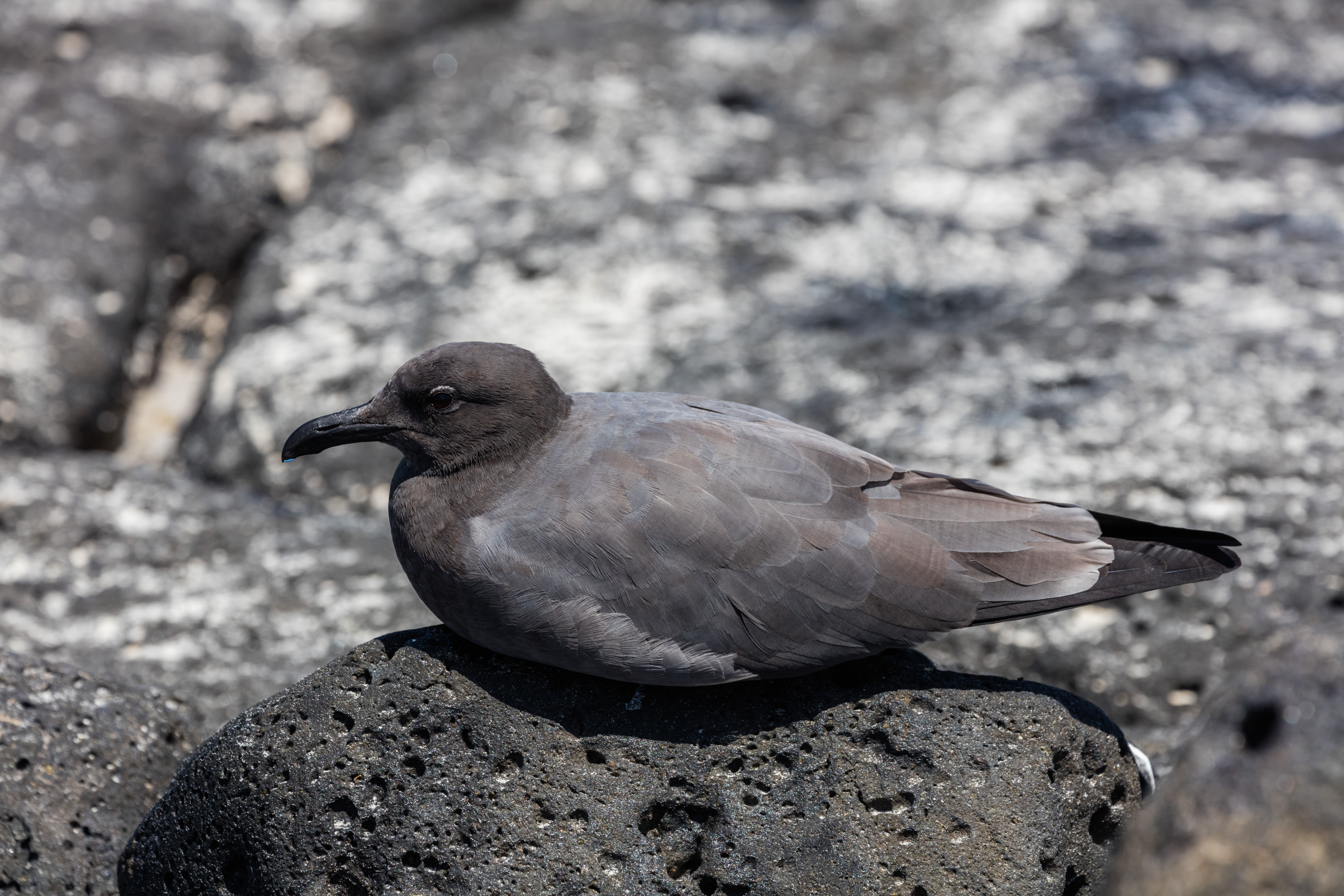 Lava gull (Larus fuliginosus), Santa Cruz island, Galapagos islands, Ecuador